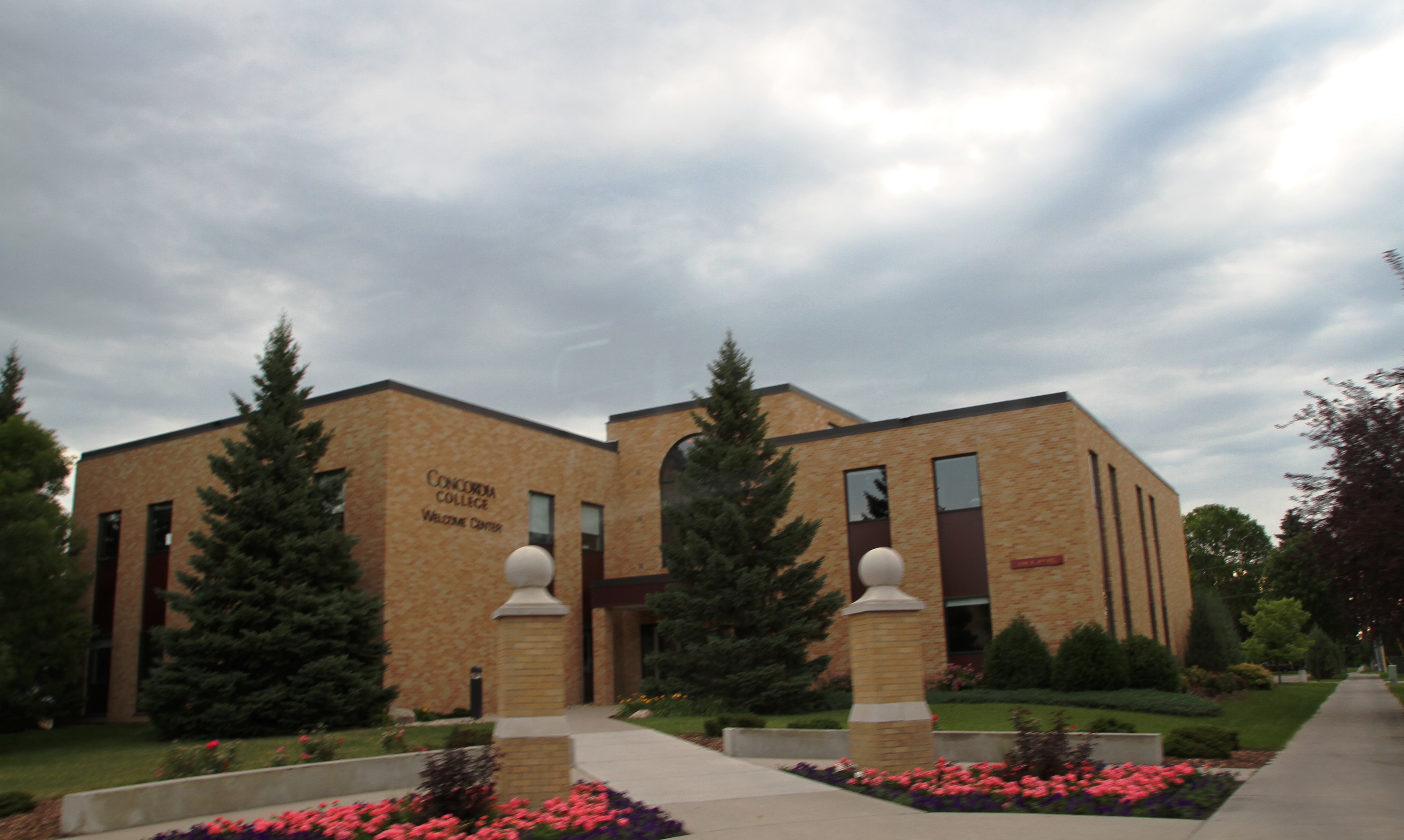 Image from the city of Moorhead, western Minnesota.